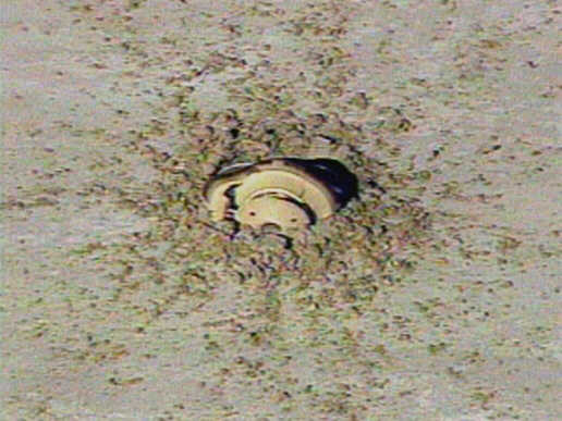 The Genesis sample return capsule's drogue and parafoil did not deploy as expected. The image at right shows the capsule where it has landed on the ground (click for larger image). The recovery team is currently analyzing and assessing the condition of the sample return capsule.